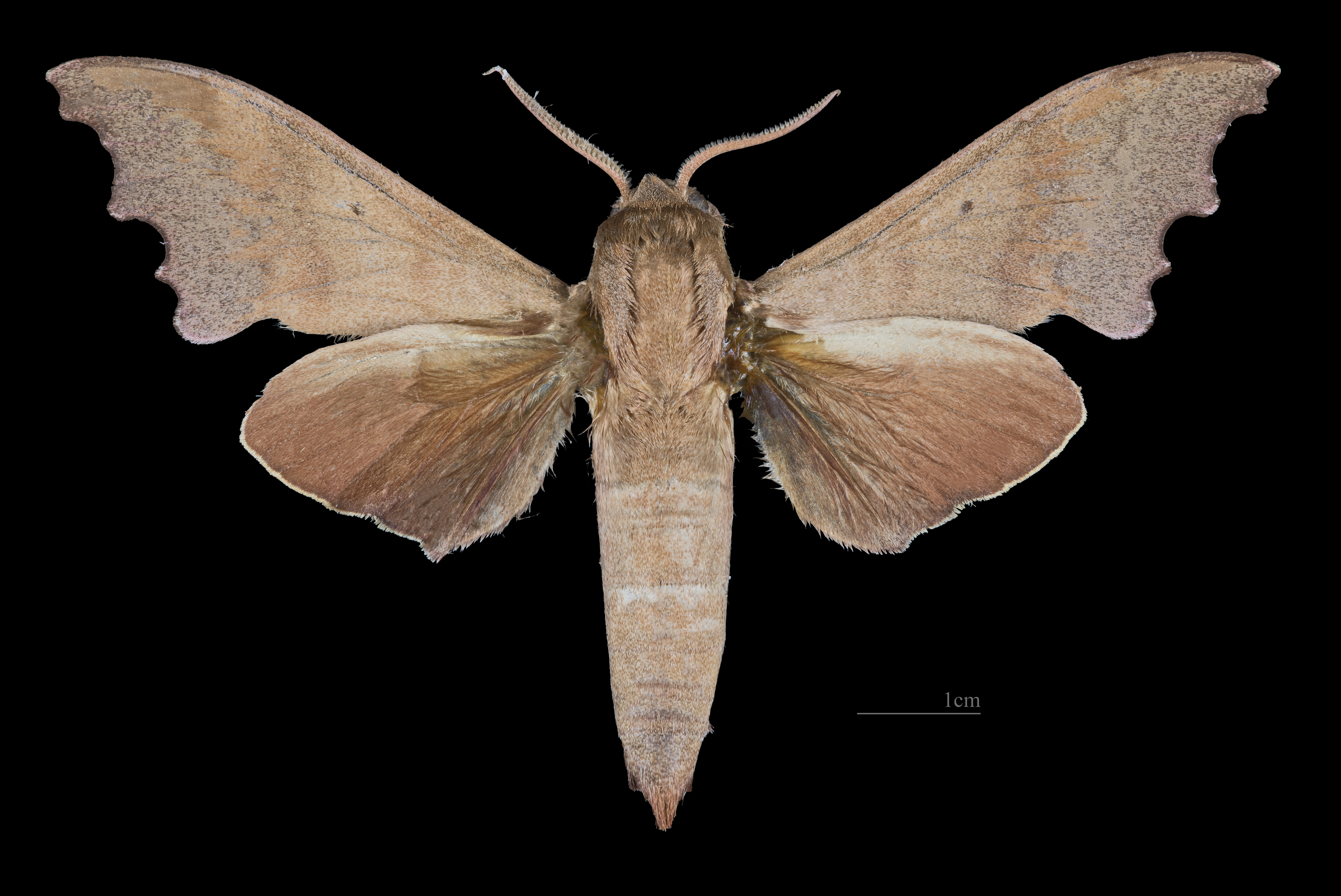 Cypa decolor - Dorsal side Collection of the Mathematician Laurent Schwartz